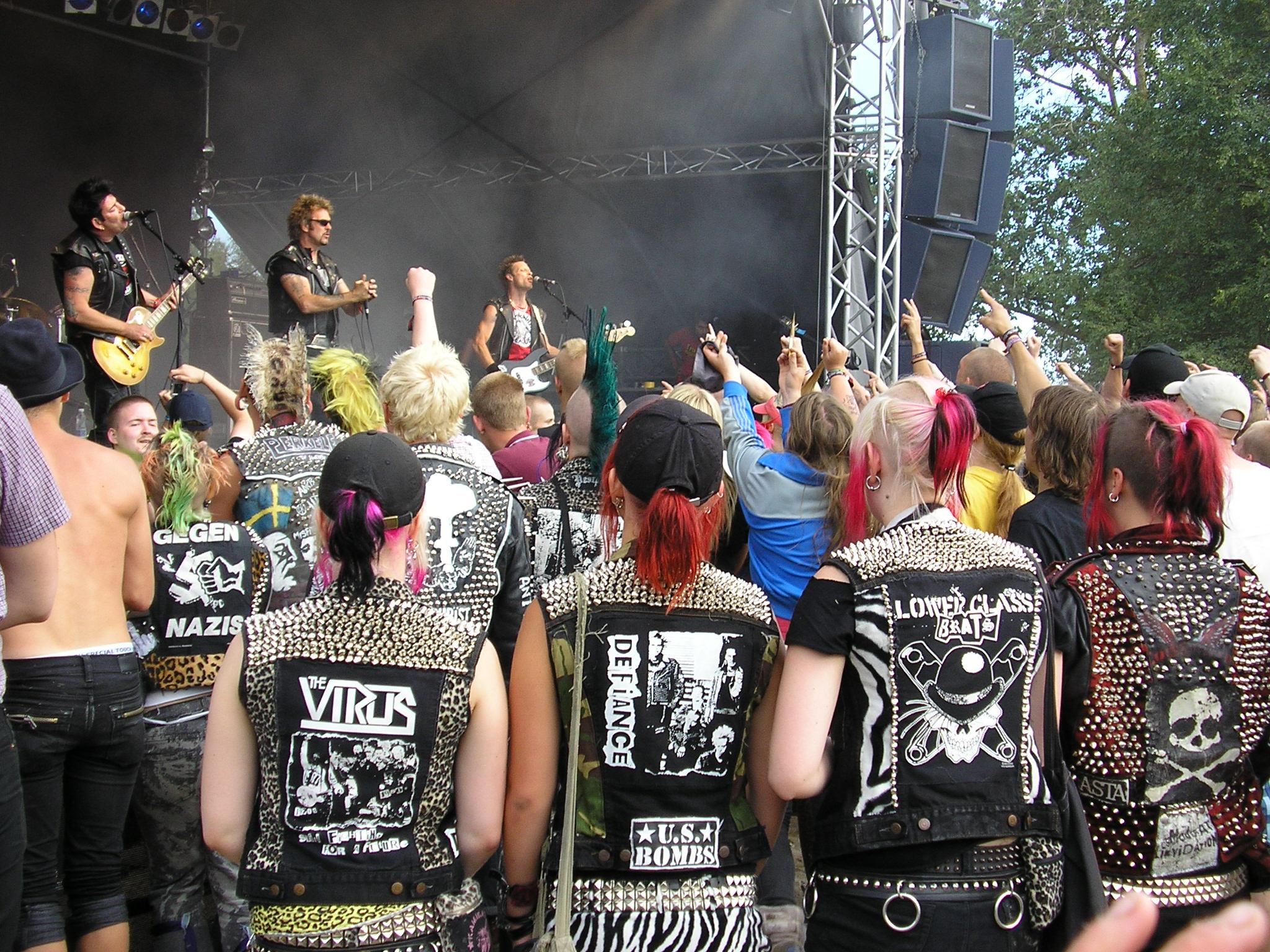 Anti-Nowhere League playing at Augustibuller 2007.